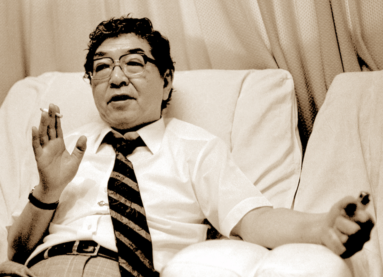 Eikoh Hosea discussing Japanese photography in his studio in Tokyo, 1989, photograph by Sally Larsen